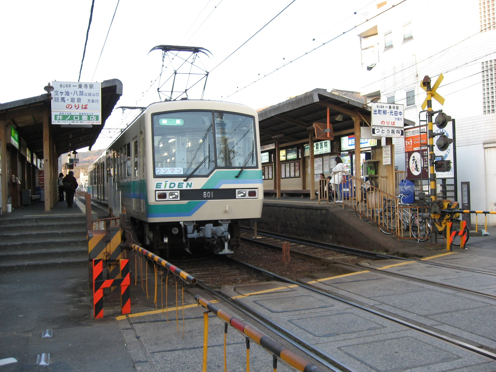 Ichijōji Station.列車が発車しまーす